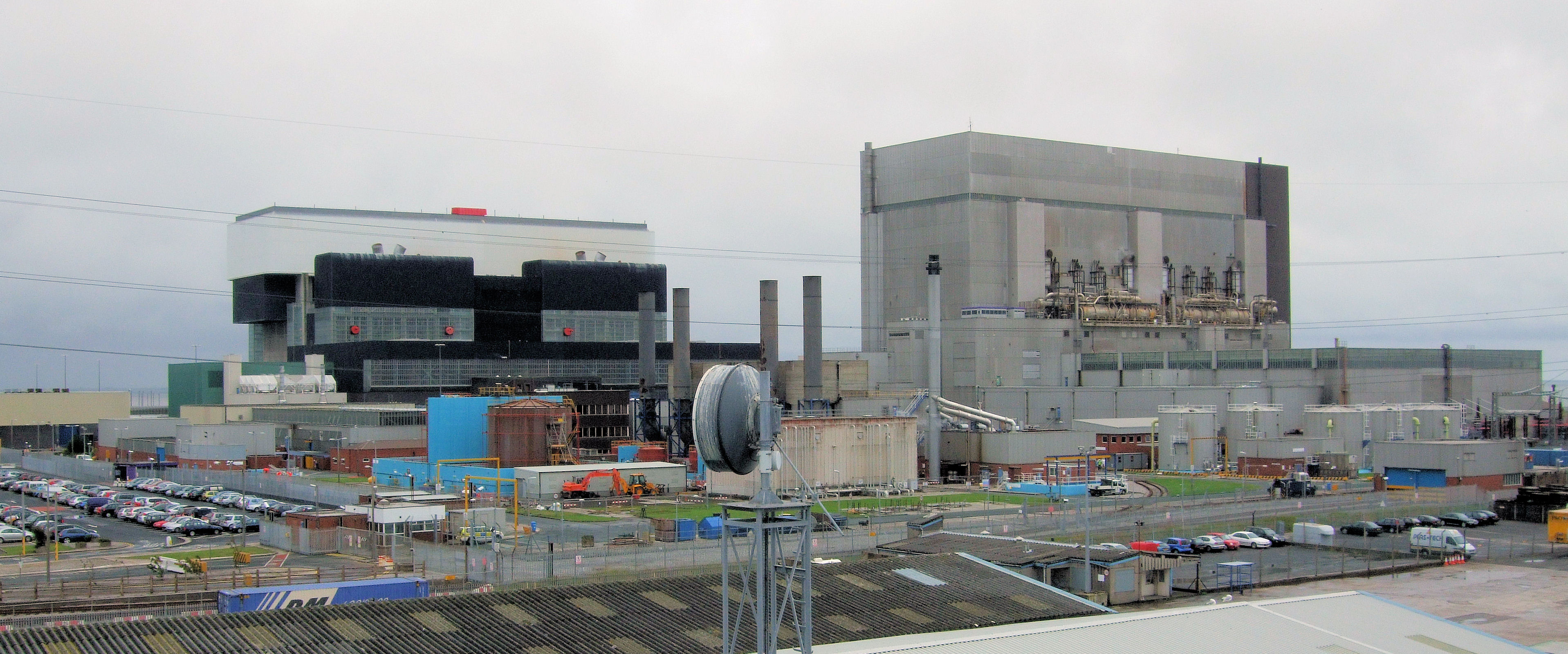 Heysham 1 (lright), with Heysham 2 behind.